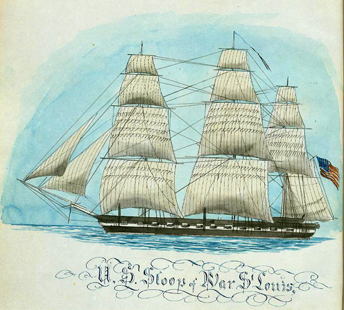 Watercolor of the sloop USS St. Louis by Gunner Moses Lane. Painted between 1852 and 1855 during a cruise in the Mediterranean Sea.